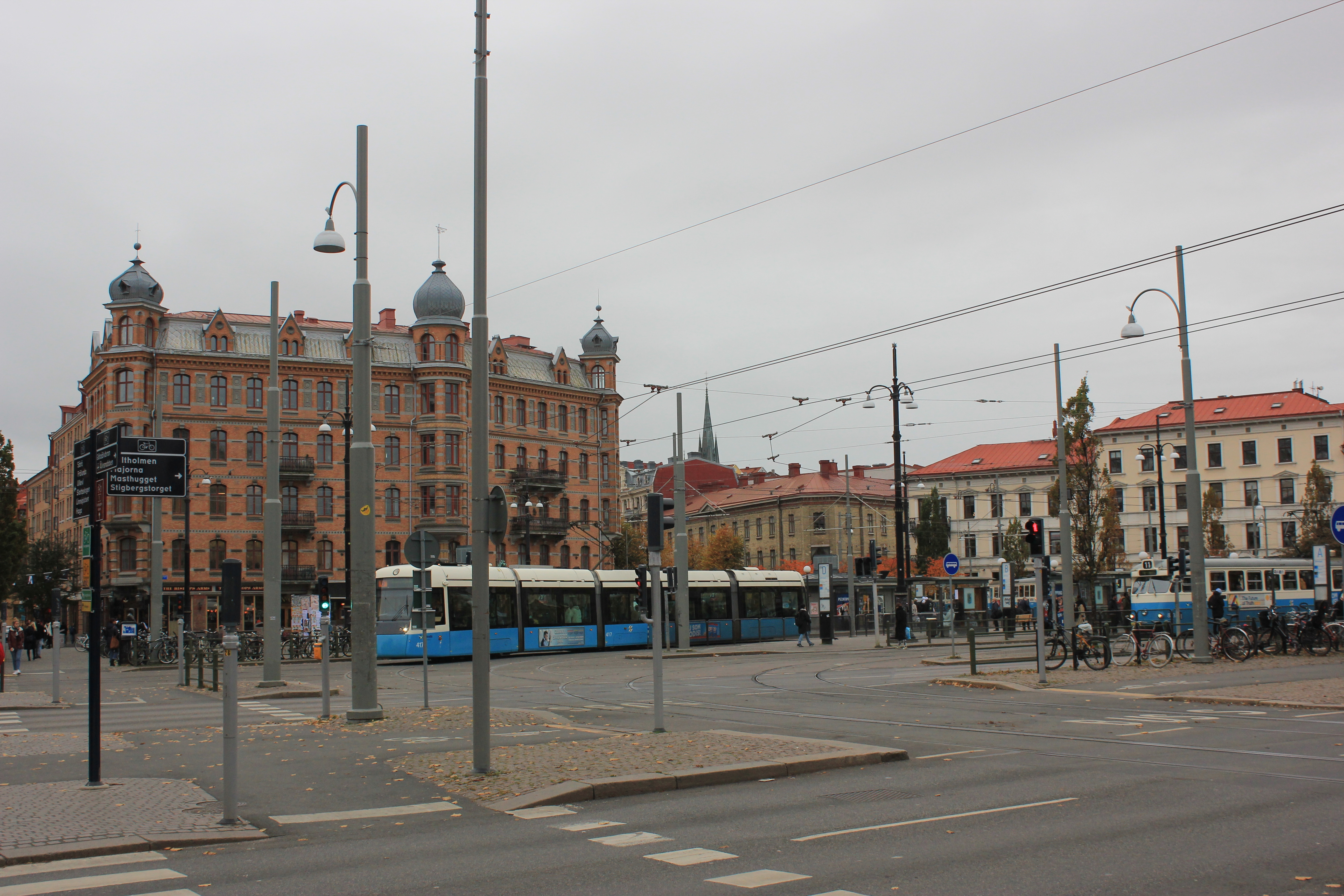 Gothenburg - Jarntorget